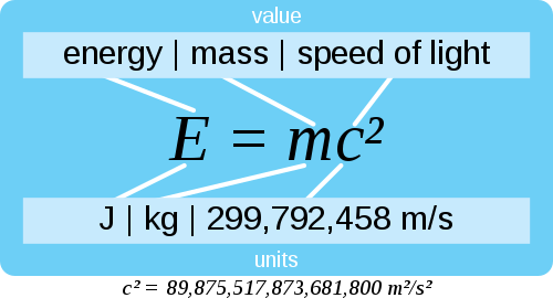 A derivation of: 1.